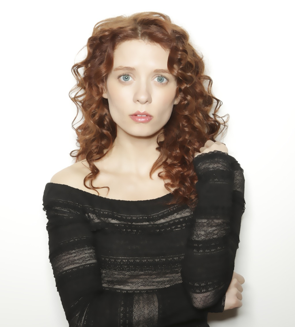 Photograph of Canadian actress Lara Jean Chorostecki